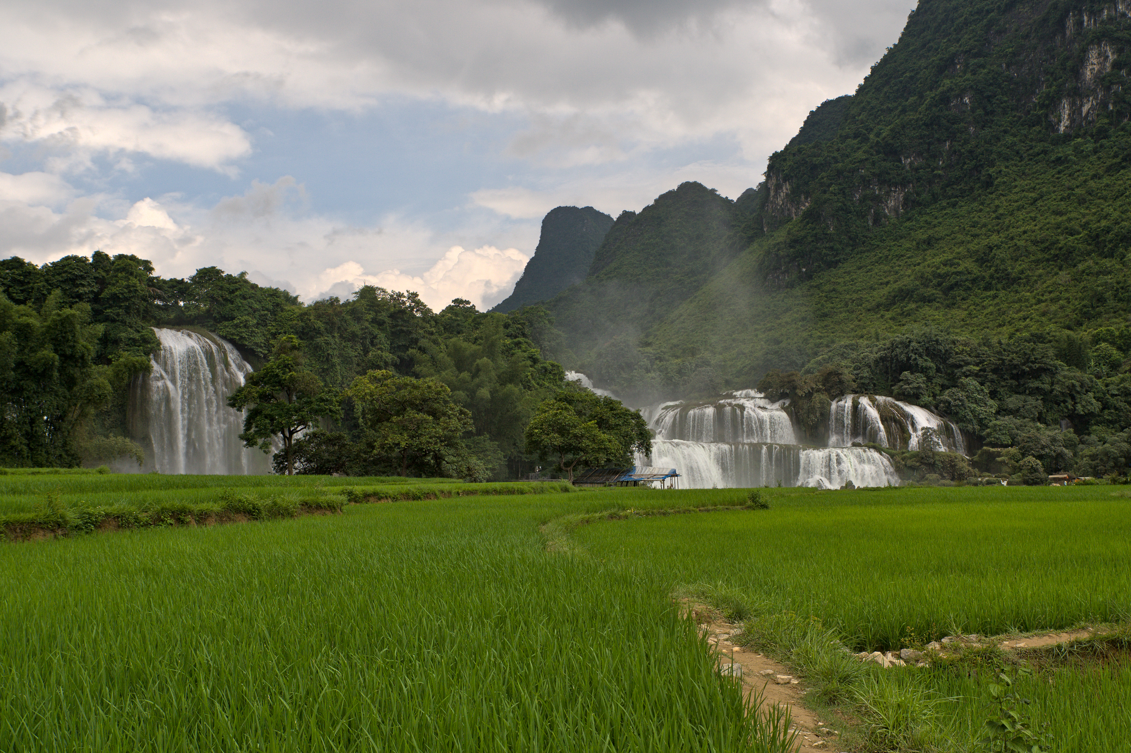 Ban Gioc Waterfalls on the Vietnamese/Chinese border